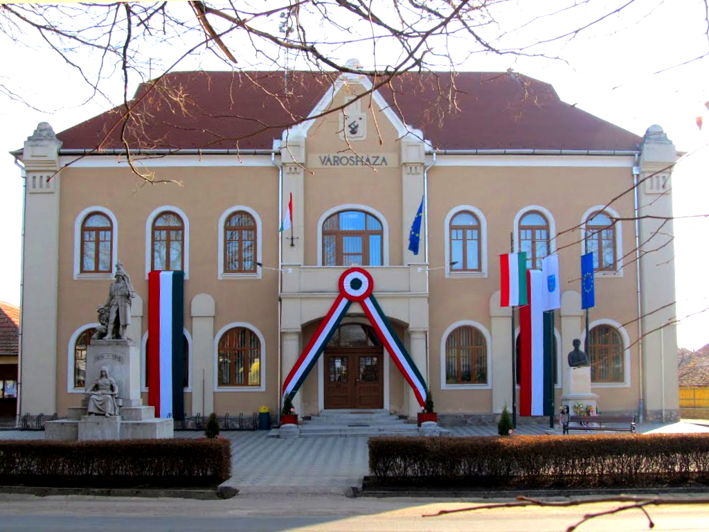 Mezőkeresztes Városháza